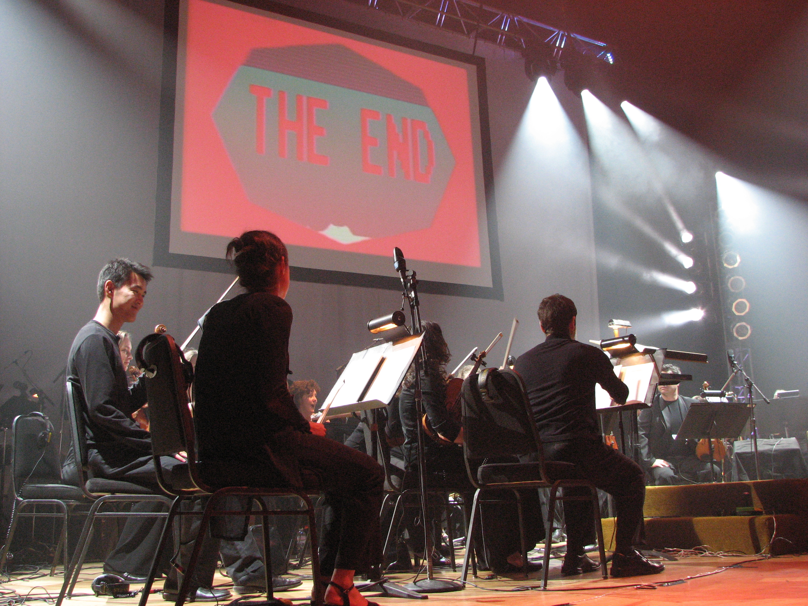 "The End" screen from Missile Command during the Video Games Live Concert in Toronto.